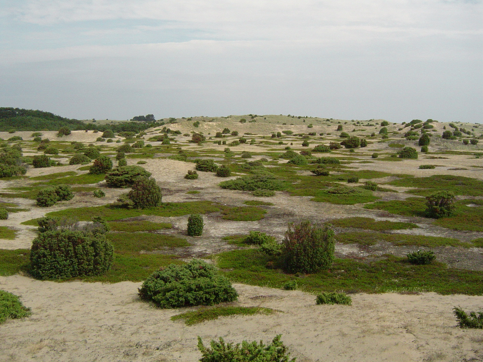 Sand dunes on Anholt, Denmark